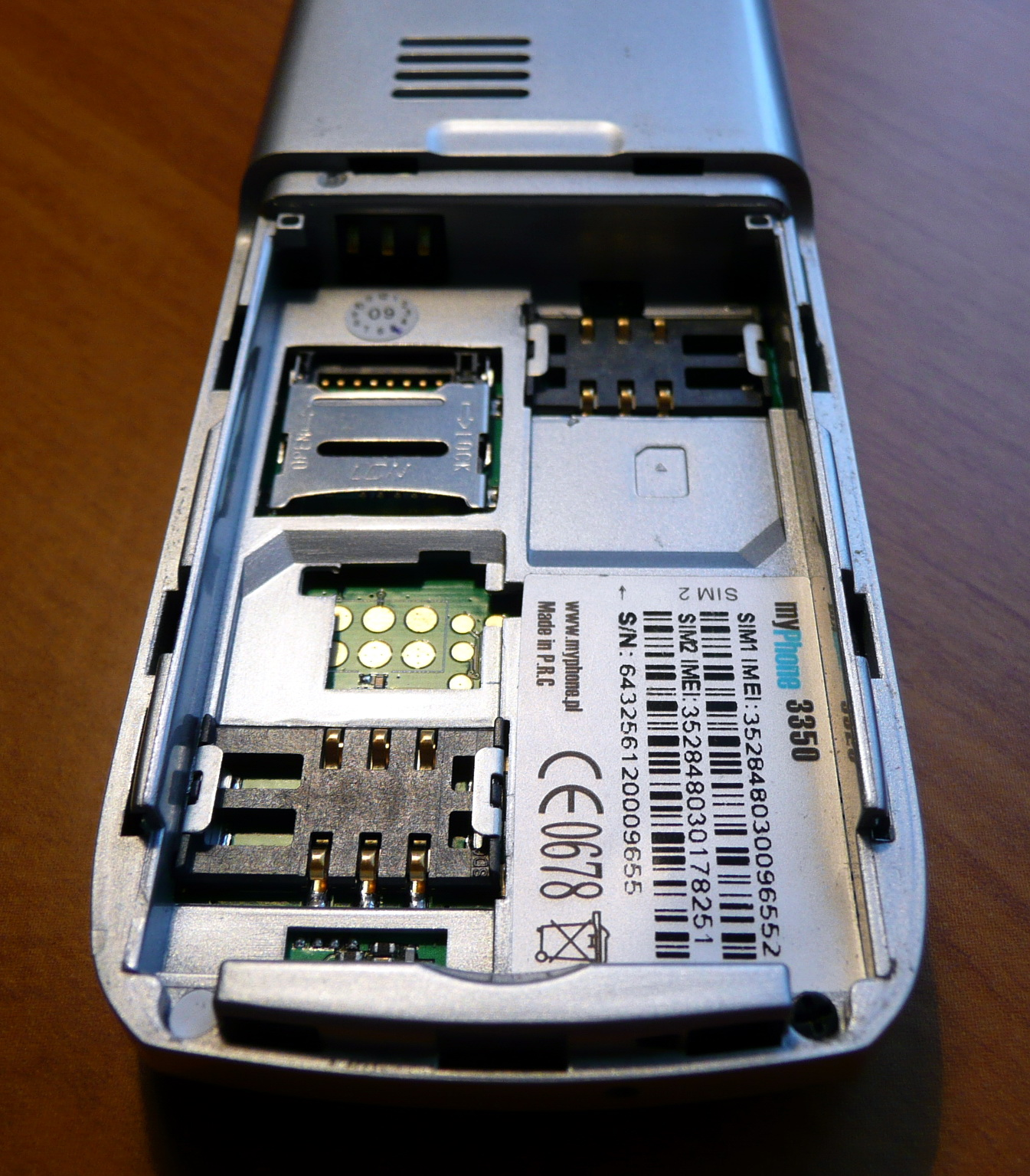 myPhone 3350 - Dual SIM and microSD slots